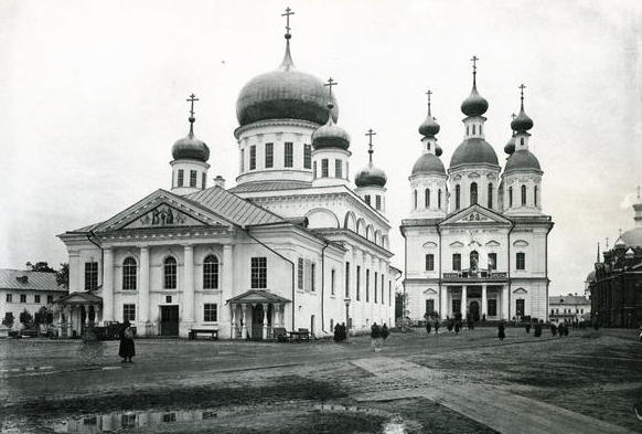 Sarovsky Monastery, Uspensky Sobor